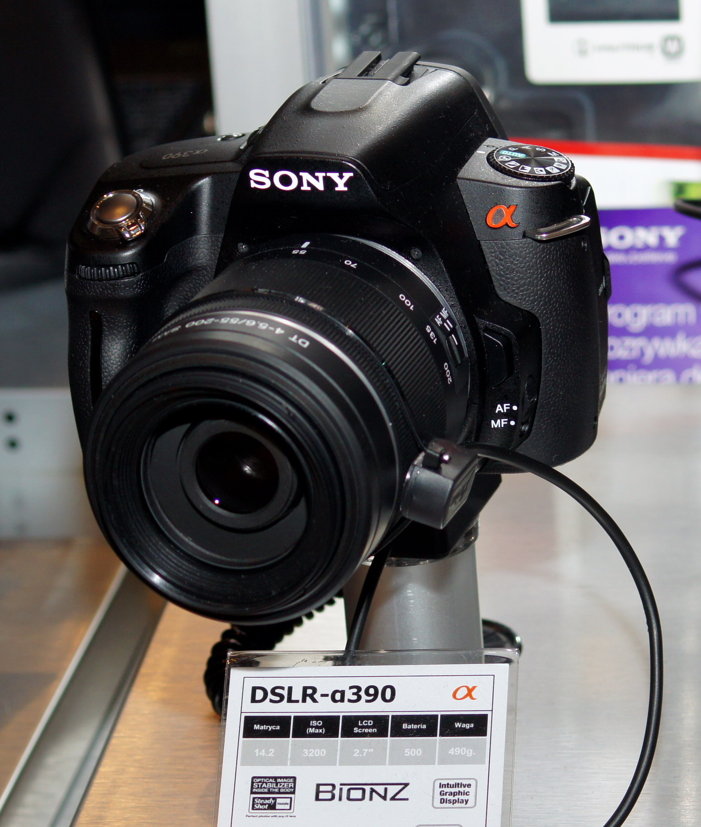 Sony DSLR-A390 digital SLR camera.